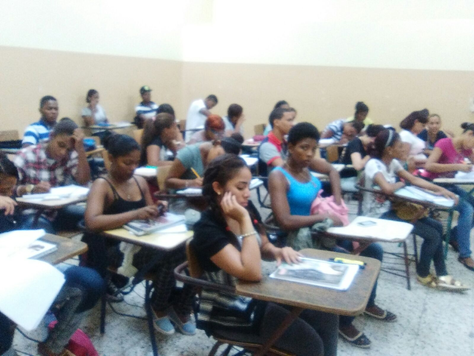 A history class-Undergraduate students at the Universidad Autónoma de Santo Domingo (UASD).